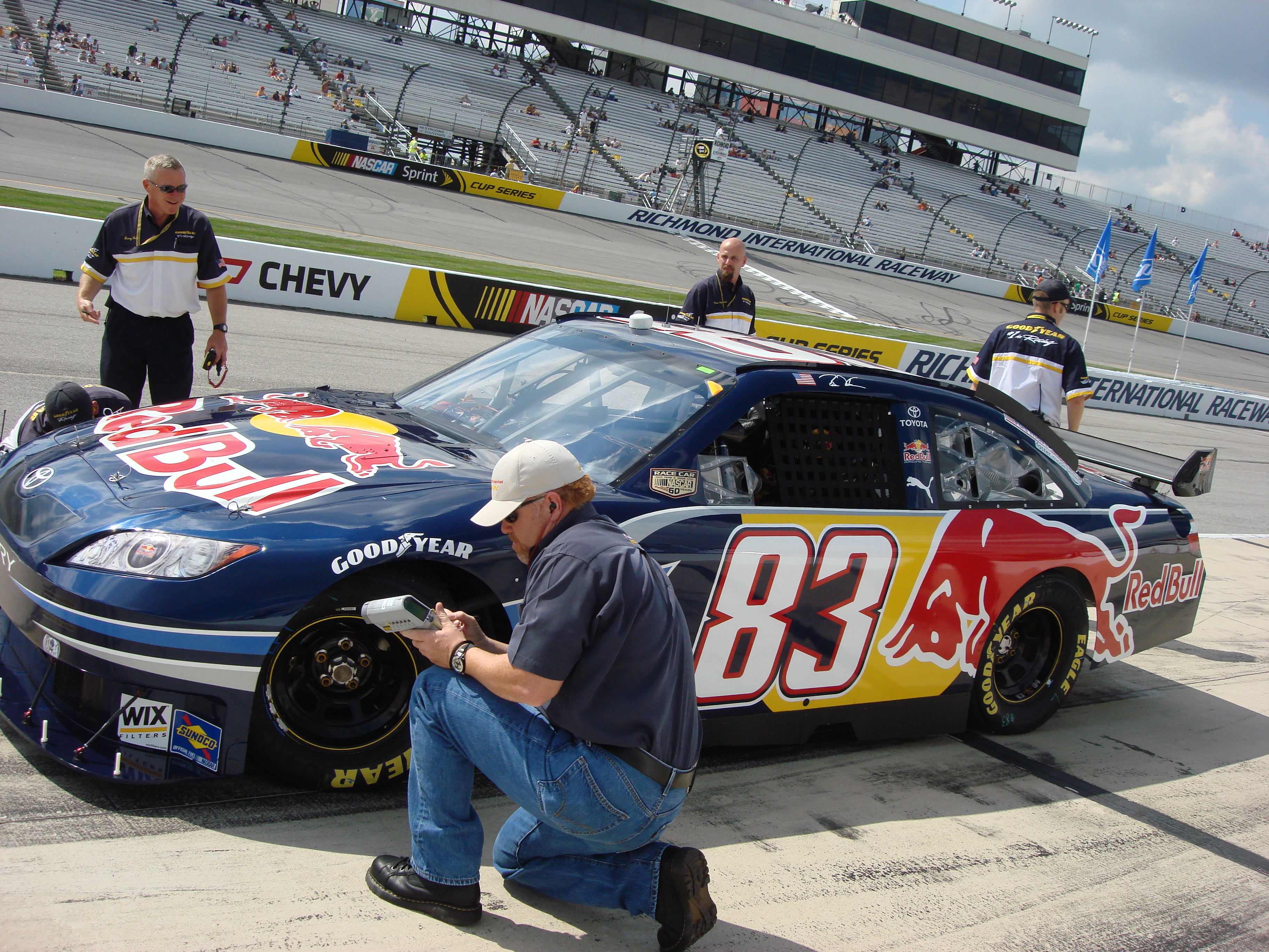 Brian Vickers' No. 83 Toyota being prepared for the 2008 Chevy Rock and Roll 400 at Richmond International Raceway